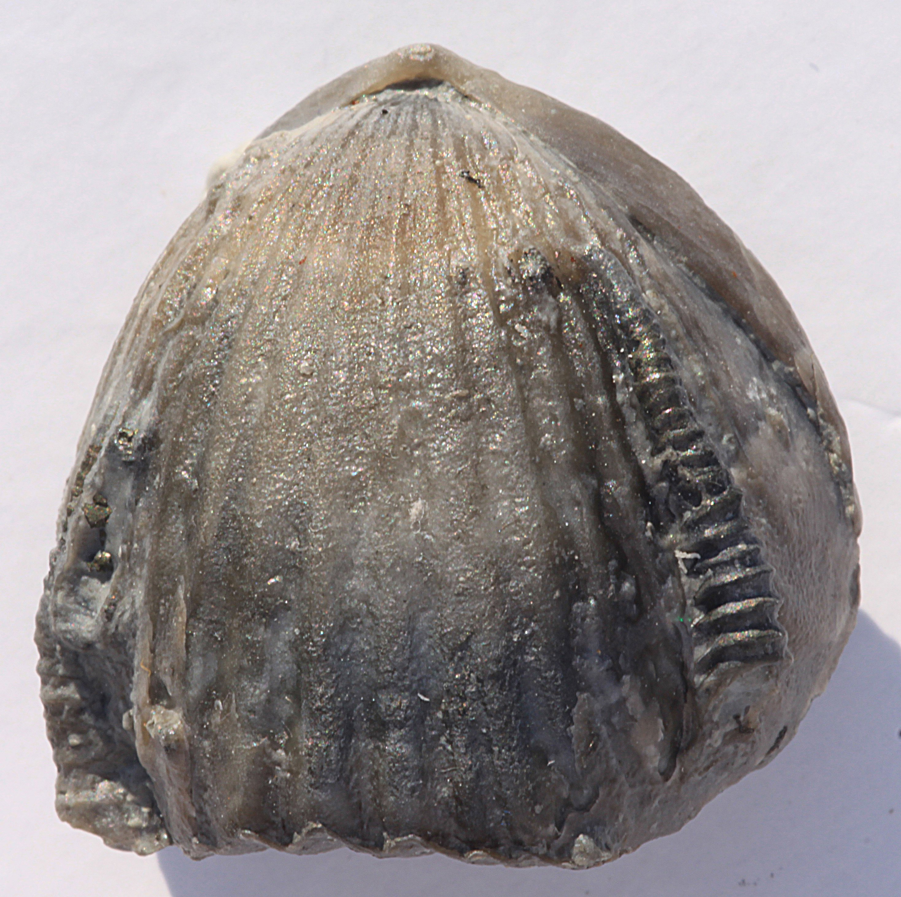 An Anastrophia internascens lampshell, Order Pentamerida, Family Parastrophinidae, 31mm along the axis, brachial valve, collected at the Waldron Shale, Indiana, USA, from the Middle Silurian (Homerian). Note the two symetrically positioned epibionts of the species Cornulites proprius, tentatively classified as Phylum Mollusca, Class Tentaculita, Order Cornulitida, Family Cornulitidae